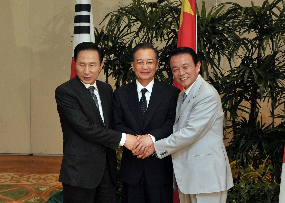 The three East Asian nations of Korea, China and Japan concurred to send a strong message against North Korea’s recent launch of a long-range rocket.